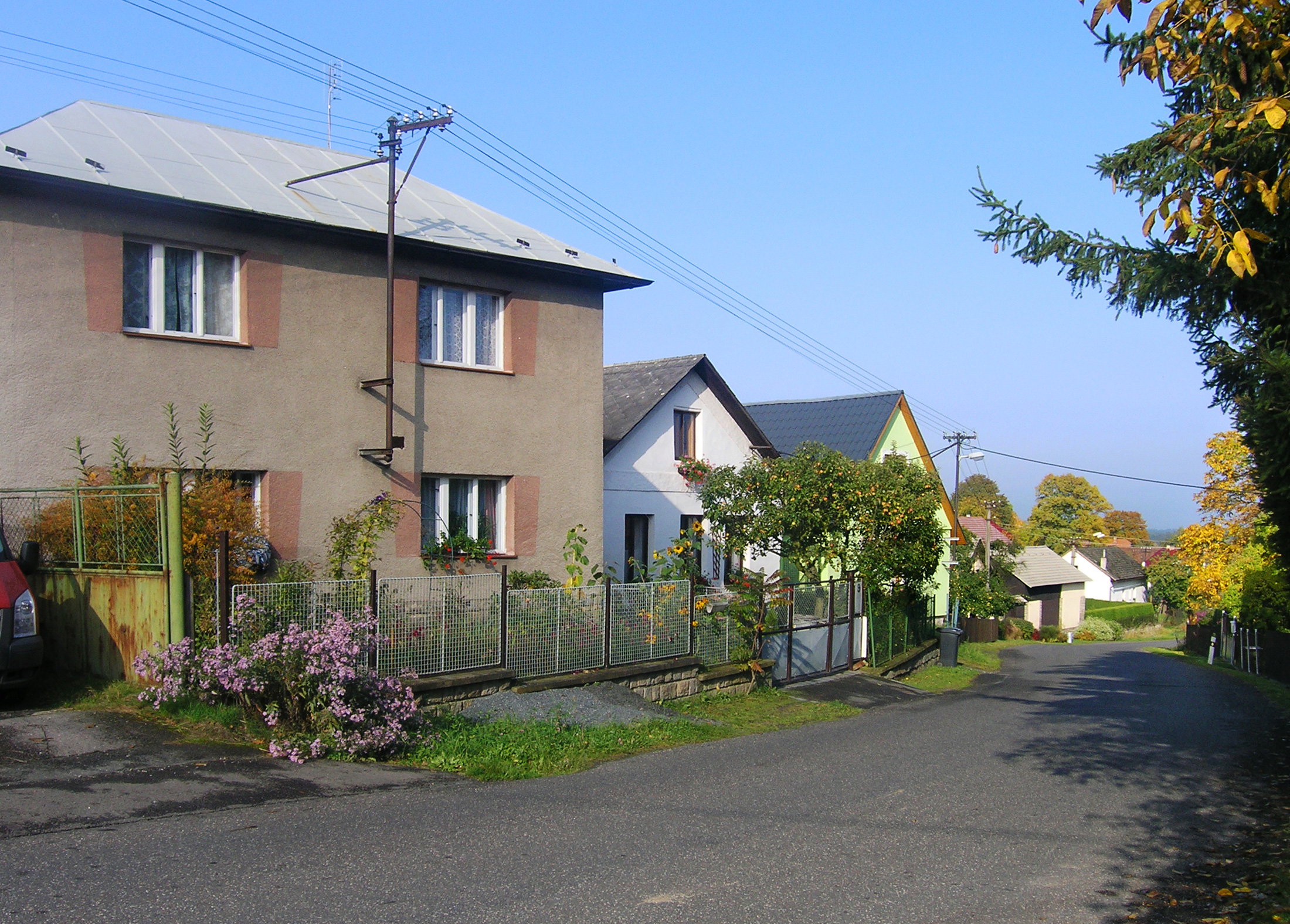 Main street in Kouty, Havlíčkův Brod District, Czech Republic